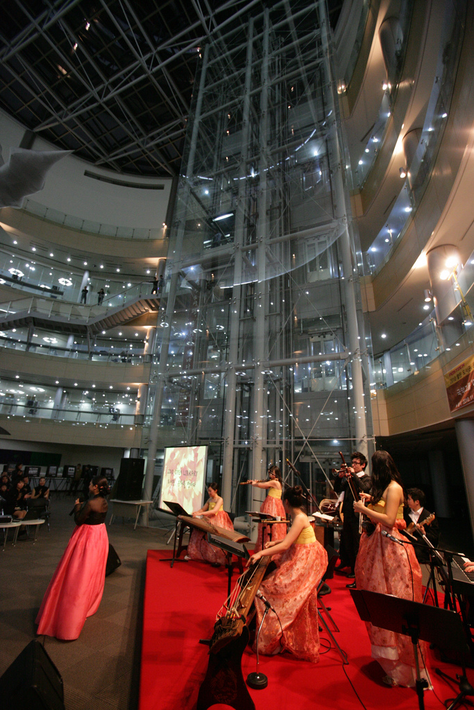 Cultural Event at Tae-joon Park Library